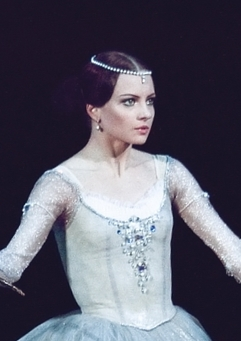 Romeo and Juliet. Moscow, BT. Nina Kaptsova.